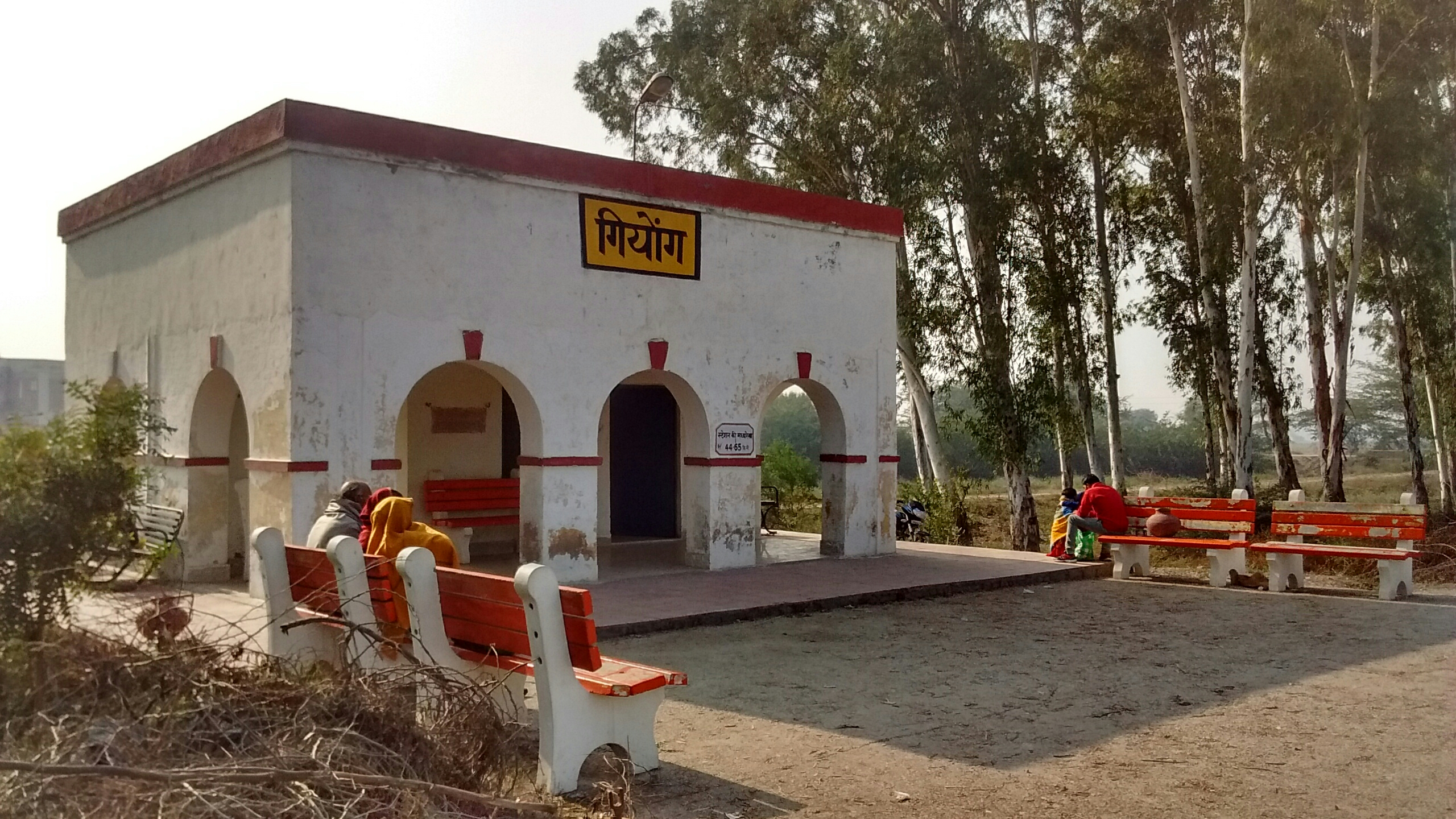 Front view of Geong railway station